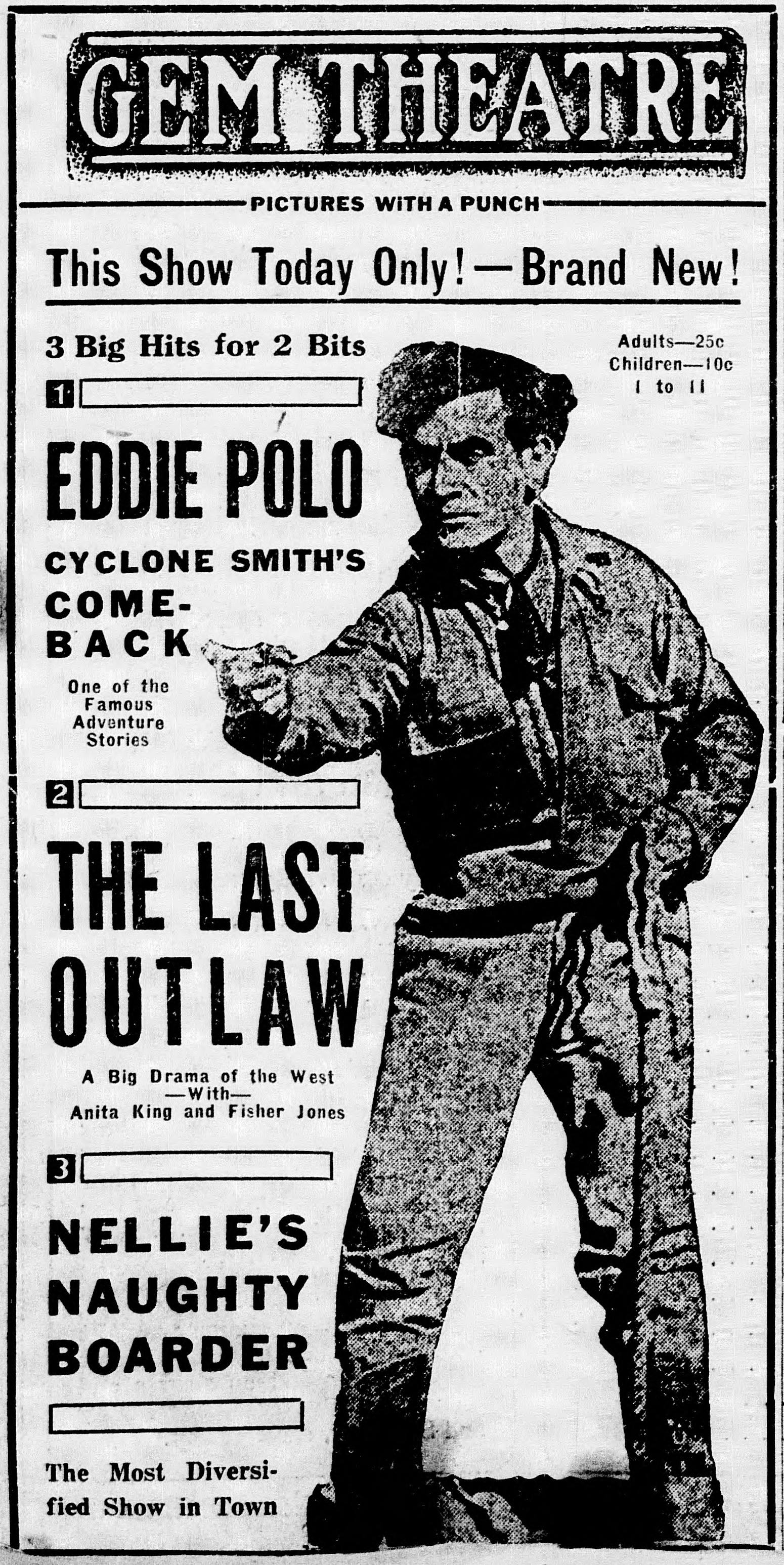 The Last Outlaw is a 1919 American short Western film directed by John Ford. This is a contemporary newspaper advertisement for the film.